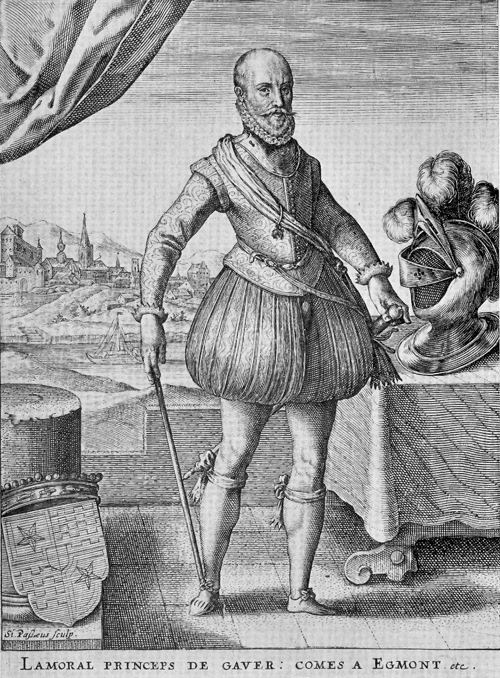 Image Lamoral II of Egmont, son of Lamoral Count of Egmont Count of Egmont Image engraved by Simon de Passe somewhere in the 17th century. Reproduction in: Men sagh Haerlem bestormen, Couvee, D. H. and others, Haarlem, 1973